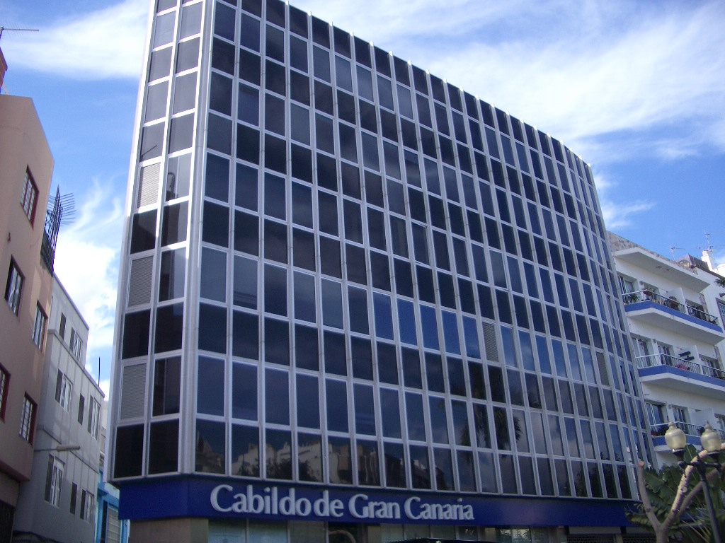 'Edificio Cristal', Cabildo Insular de Gran Canaria (island goverment) offices. Las Palmas de Gran Canaria, Canary Islands (Spain).